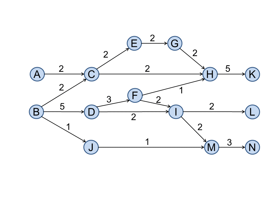 This figure shows the SPC values for each link in a sample citation network.